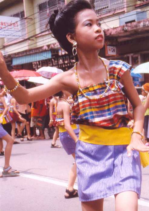 girl dancing in parade at Ubon Candle Festival; picture taken by User: Markalexander100 summer 2004